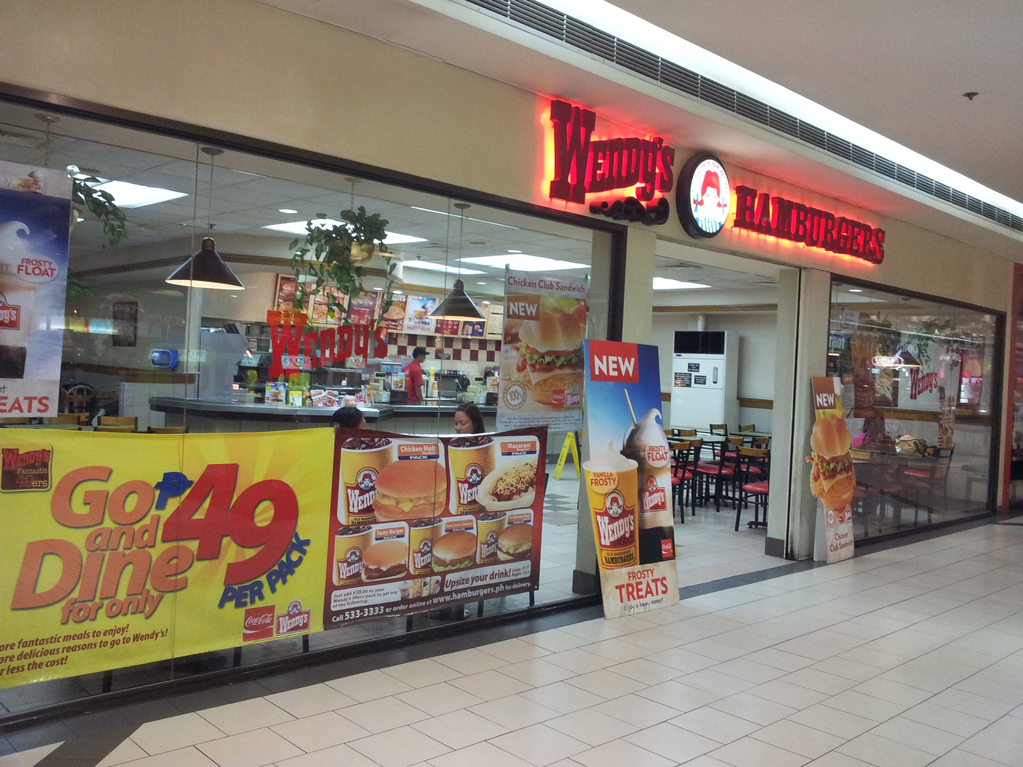 A Wendy's Hamburgers outlet in Manila, Philippines